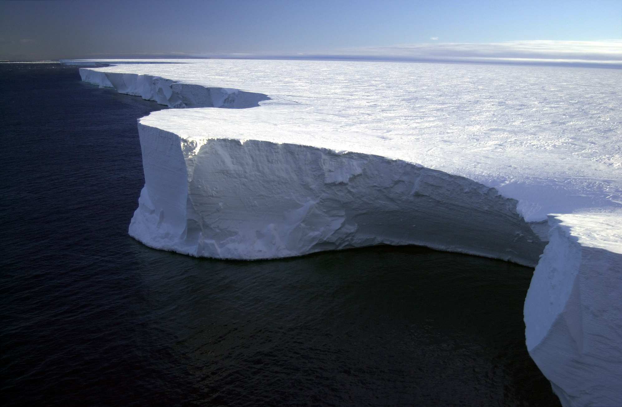 The northern edge of the giant iceberg, B-15A, in the Ross Sea, Antarctica. Iceberg B-15A is a fragment of a much larger iceberg (B-15) that broke away from the Ross Ice Shelf in March 2000. Scientists believe that the enormous piece of ice broke away as part of a long-term natural cycle (every 50-to-100 years, or so) in which the shelf--which is roughly the size of Texas--sheds pieces much as human fingernails grow and break off. Researchers have placed global positioning systems (GPS), weather monitoring stations and four seismometers on different icebergs to track them. The goal is to learn more about what causes icebergs to calve, how and why they drift, what happens when the icebergs warm, and why they are producing previously unknown tremors that are picked up on seismometers as far away as Tahiti. Plans are to track B-15A until it disintegrates. [Iceberg Update: In 2005 prevailing currents took B-15A slowly past the Drygalski ice tongue (an iceberg located in northern McMurdo Sound); the collision broke off the tip of Drygalski in mid-April. Iceberg B-15A sailed on along the coast leaving McMurdo Sound until it ran aground off Cape Adare in Victoria Land (a region of Antarctica lying south of New Zealand), where it broke into several smaller pieces on Oct. 27 and 28, 2005. The largest piece is still named B-15A (its surface is now approx. 1,700 square kilometres), while three additional pieces were named B-15P, B-15M and B-15N. It has since moved farther up north and broken up into more pieces. These were spotted by air force fisheries patrol on Nov. 3, 2006. On November 21, several large pieces were seen just 60 kilometres (37 mi) off the coast of Timaru, New Zealand, the largest measuring about 1.8 kilometres (1.1 mi) wide and 120 feet (37 m) high.]